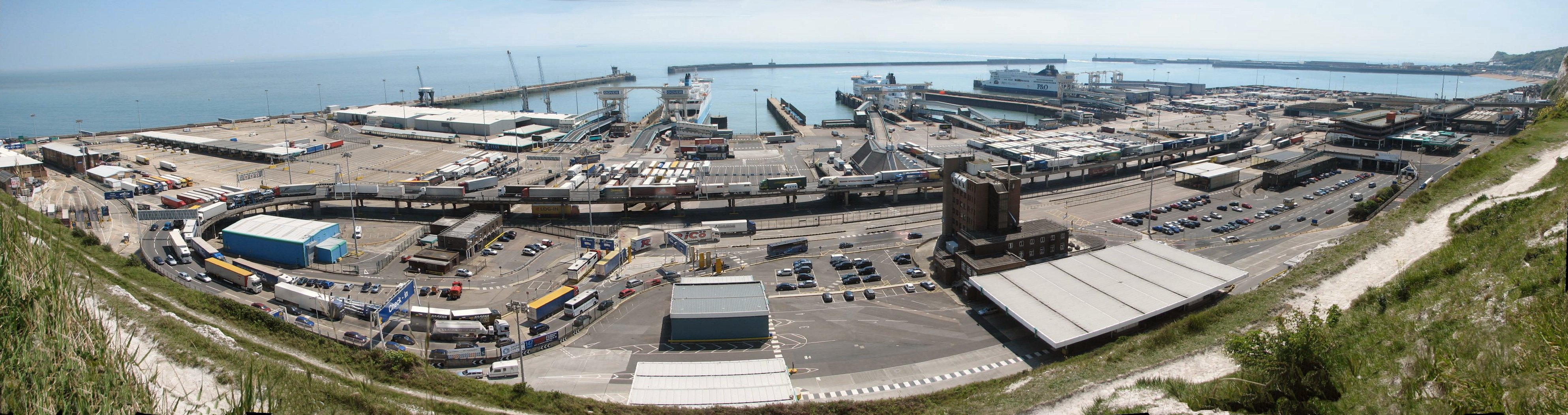 Panorama of Dover Harbour from the cliffs above